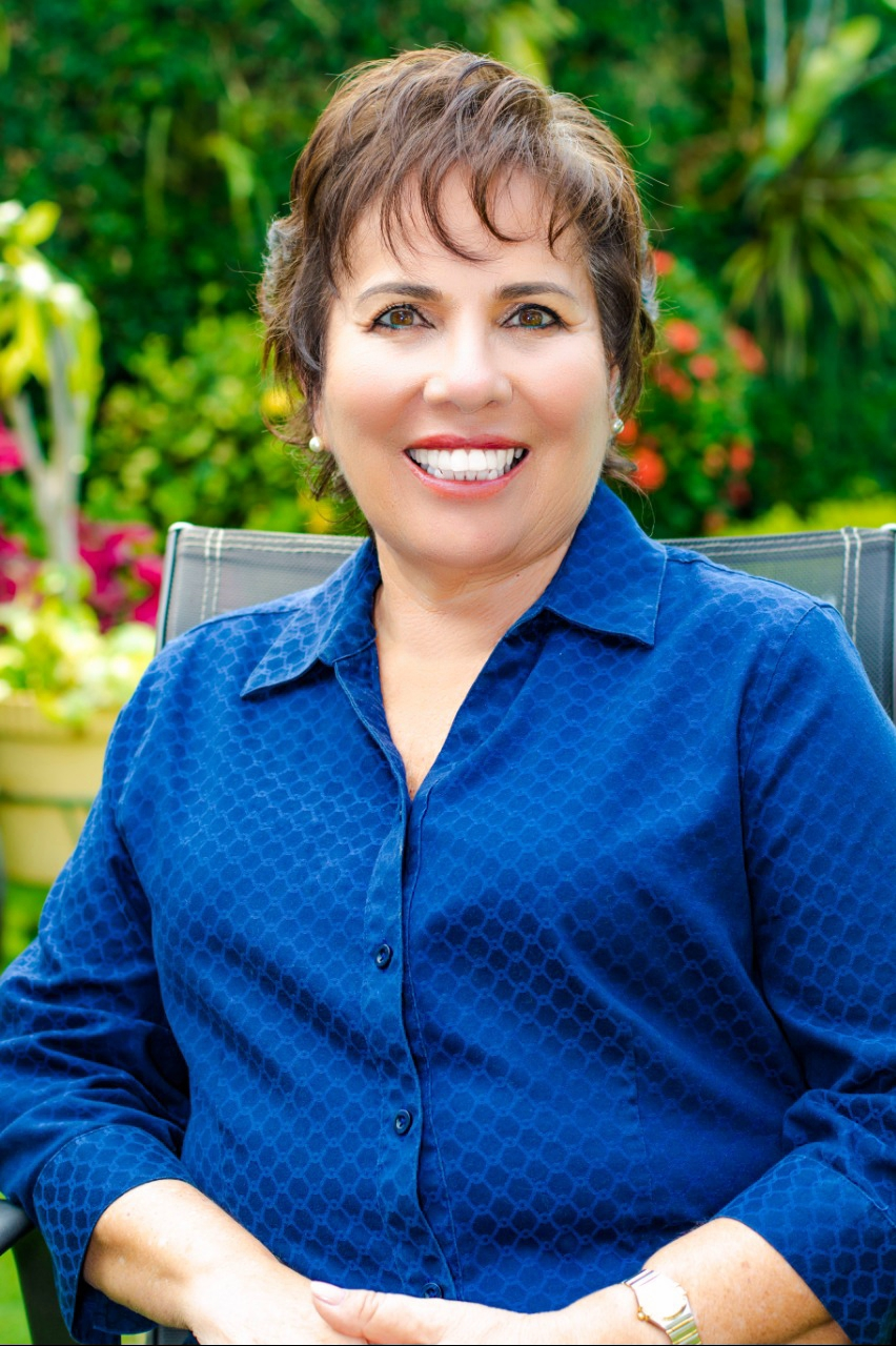 Candidata a Prefecta por Guayas.